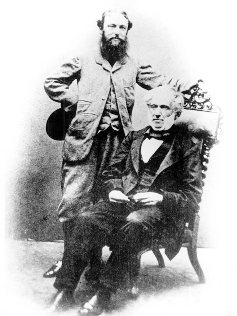 Portrait of Thomas Jeckyll and his father